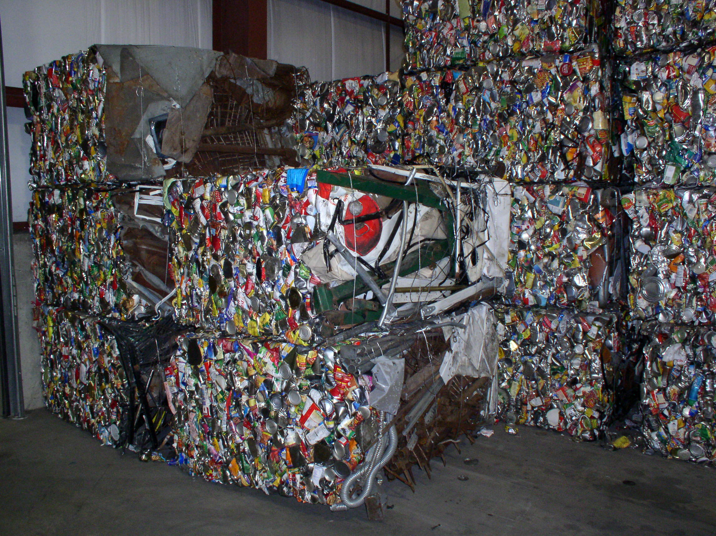 Steel crushed and baled for recycling in a recycling plant outside Galva, Illinois.